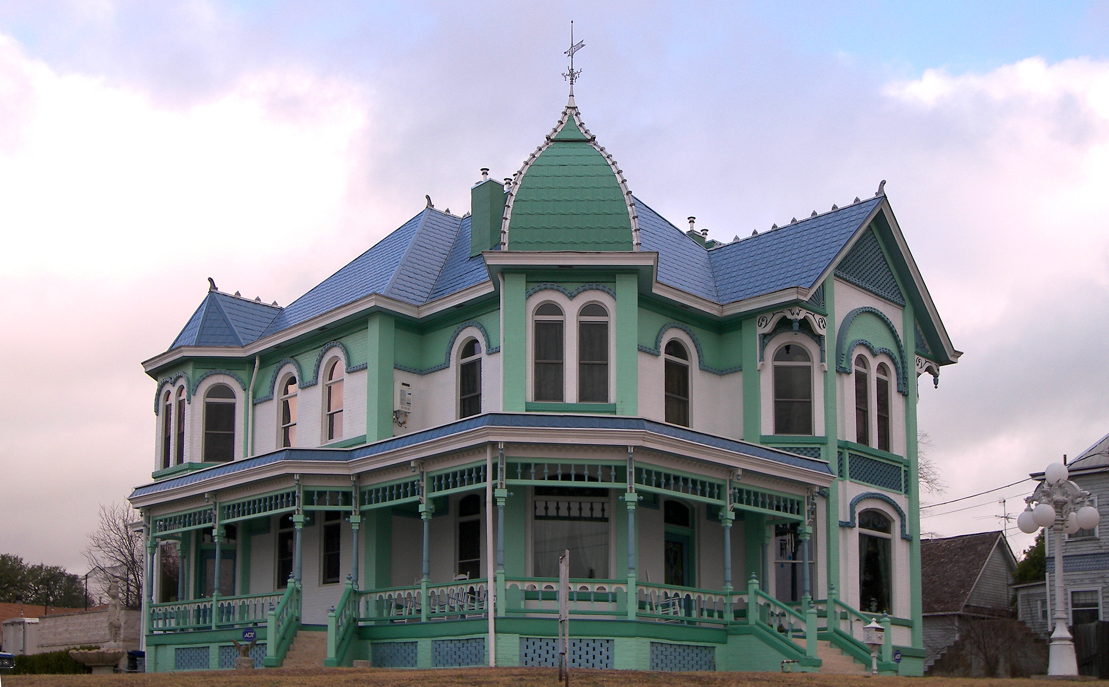 The Dr. Taylor Hudson House located in Belton, Texas, United States. The building was listed on the National Register of Historic Places on December 26, 1990.